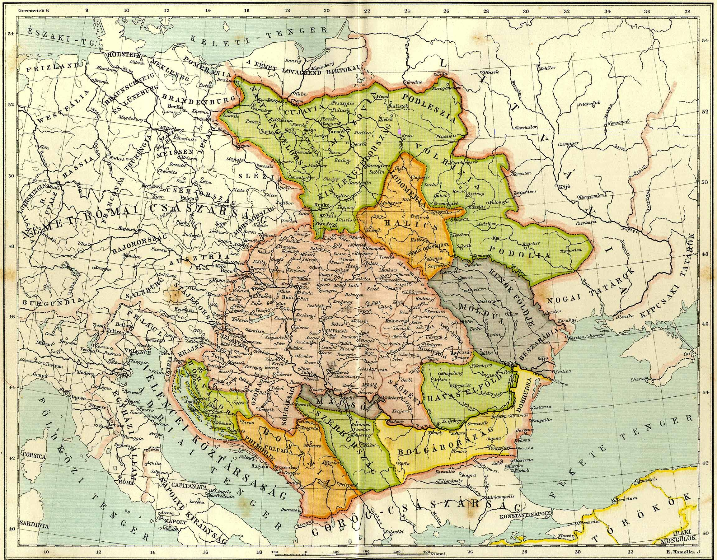 Lands, countries and kingdoms under Louis the Great's rule in the 1370s, according to Homolka (1890).